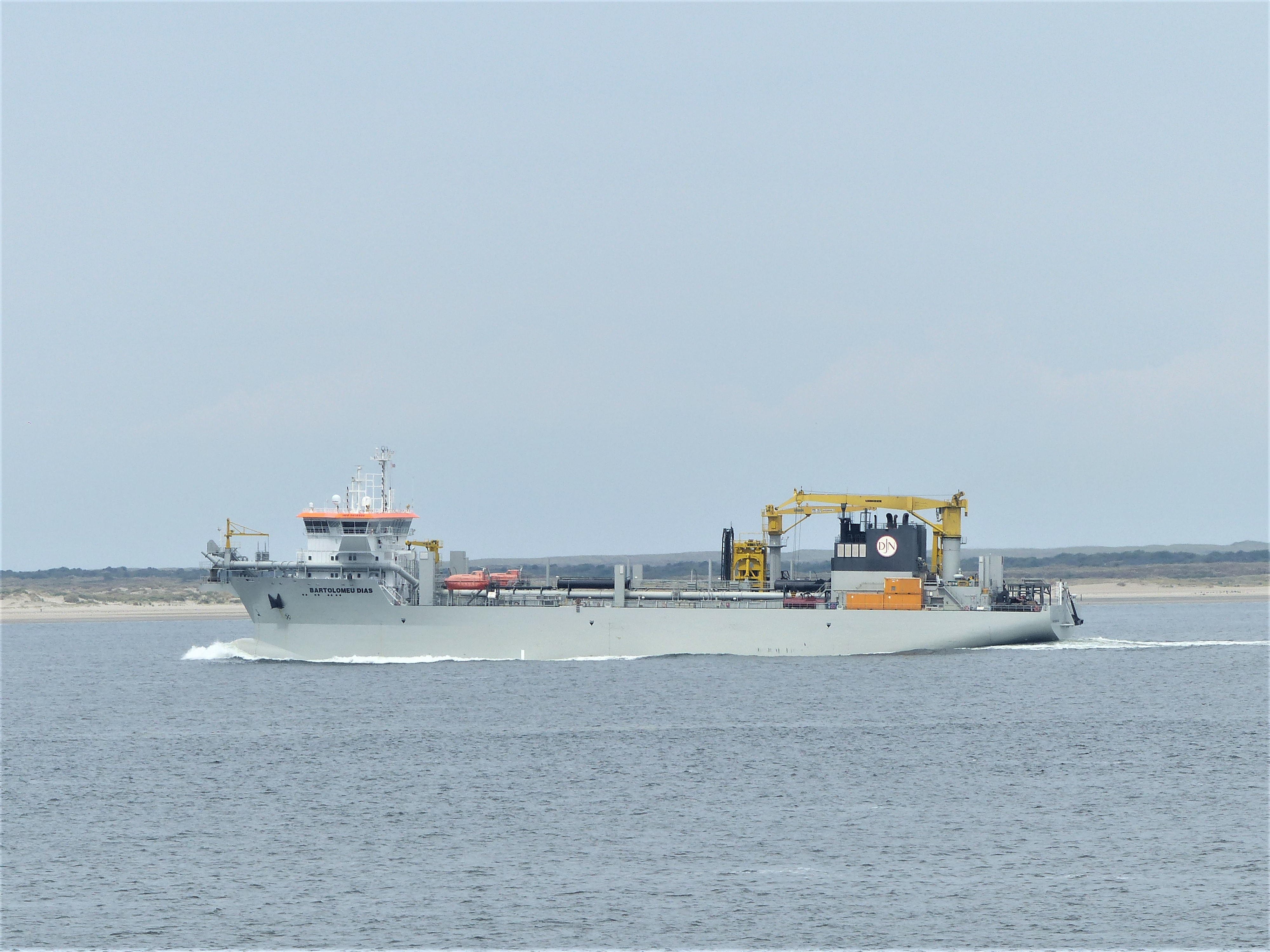 Bartolomeu Dias (ship) on the 9th of August, 2018. At Texel island, Kingdom of the Netherlands.